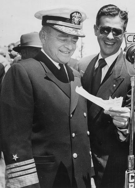 United States Navy Admiral Richard S. Edwards (1885-1956).